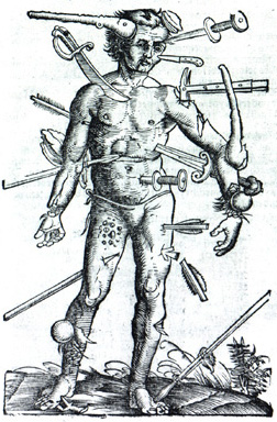 Image of Wound Man taken from The Method of Curing Wounds made by Gun-shot London, en:1617